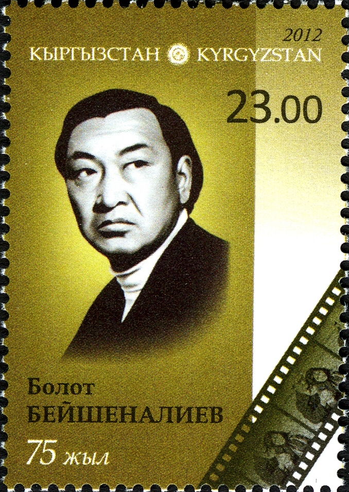 Stamps of Kyrgyzstan - Bolot Beishenaliev, 2012